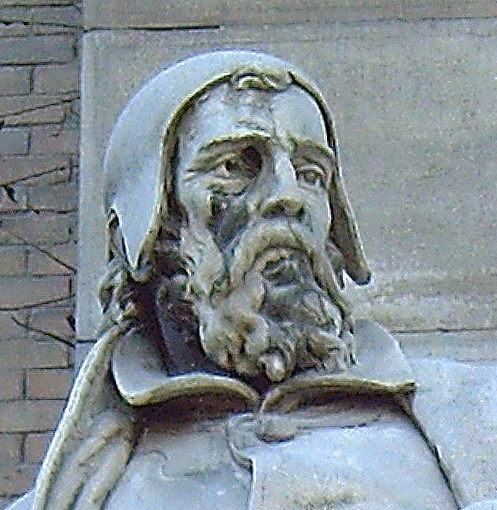 Detail of the statue of Alonso Berruguete (c.1490–1561) next to the entrance of the National Archaeological Museum of Spain, in Madrid. Sculpted in Italian white marble by José Alcoverro y Amorós in 1892.